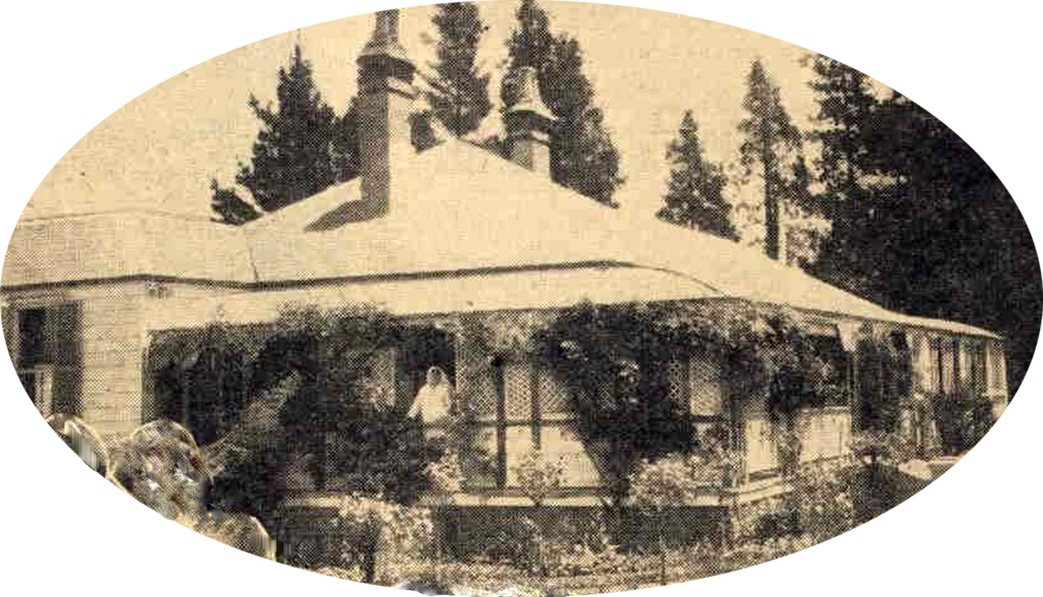 Mondeval, Leura in 1933